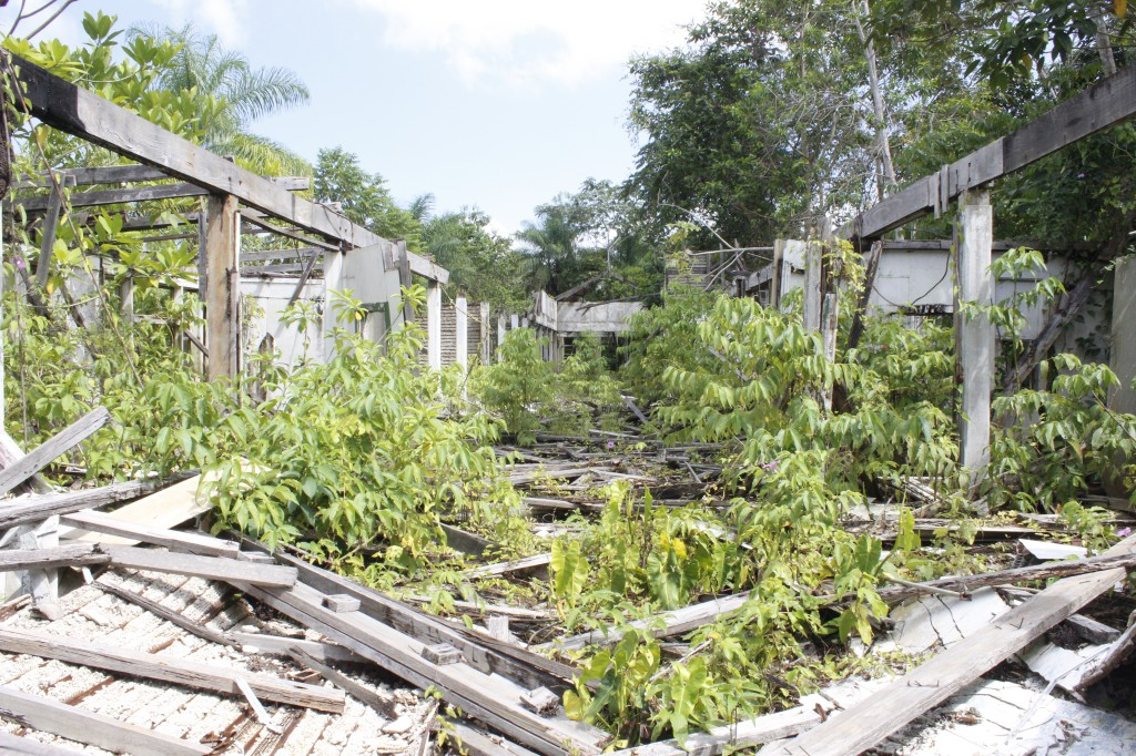 Fordlandia Hospital completely dismantled after people stole all of its contents.